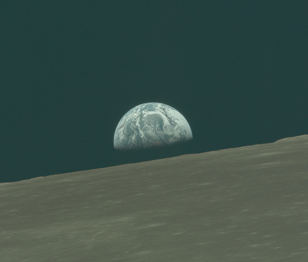 A view of Earth rising above the lunar horizon photographed from the Apollo 10 Lunar Module, looking west in the direction of travel. The Lunar Module at the time the picture was taken was located above the lunar farside highlands at approximately 105 degrees east longitude. This version has been cropped, reduced in resolution and adjusted so that it appears overexposed.